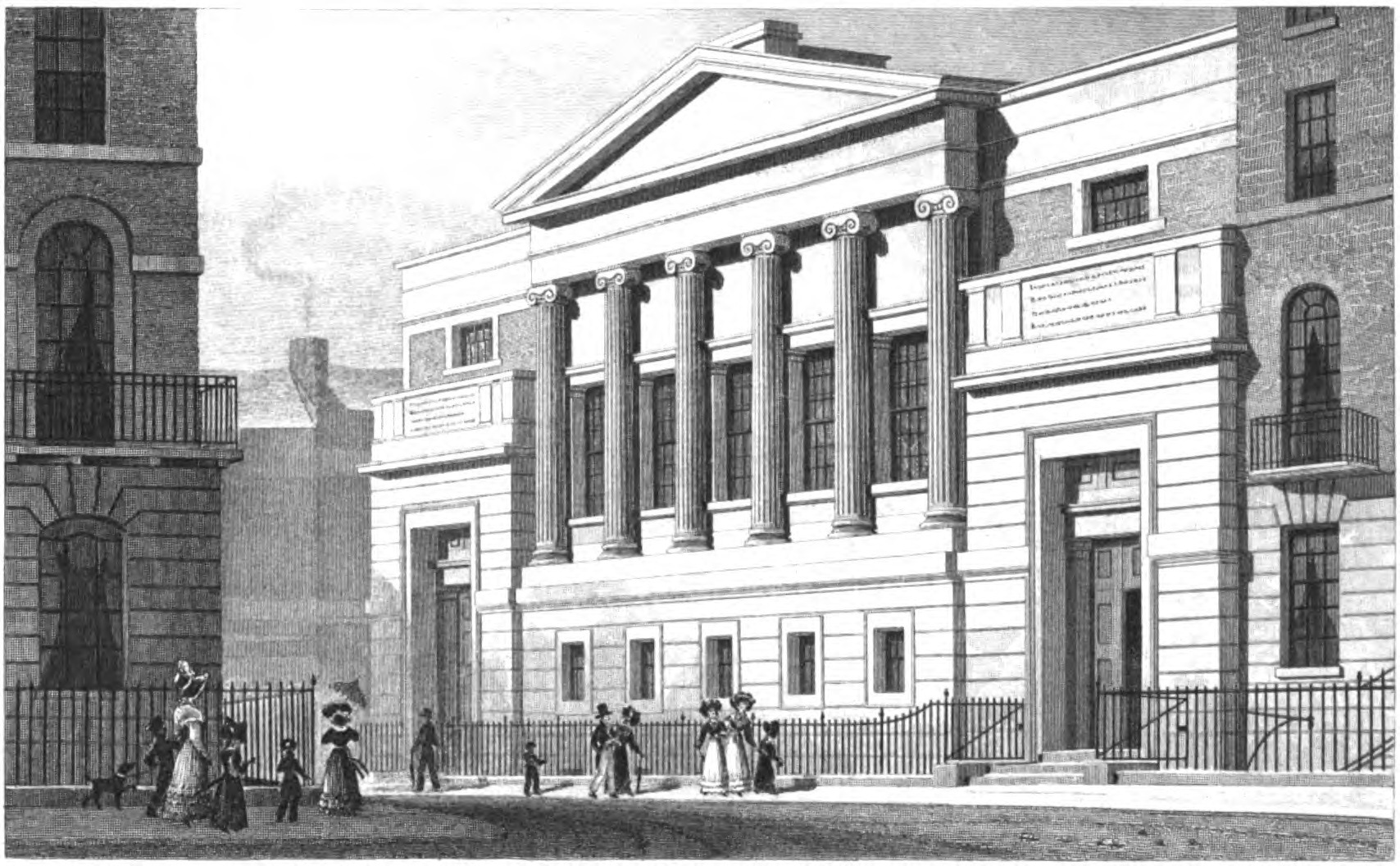 print showing the corner of Finsbury Circus and the chapel that formerly stood on the south side of East Street. Engraved by Thomas Barber (fl.1818-1840) from an original study by Thomas Hosmer Shepherd 1793-1864. Originally produced for Shepherd's series "Metropolitan Improvements; or London in the Nineteenth Century" (London : 1827-1830). Copper line engraving on paper.